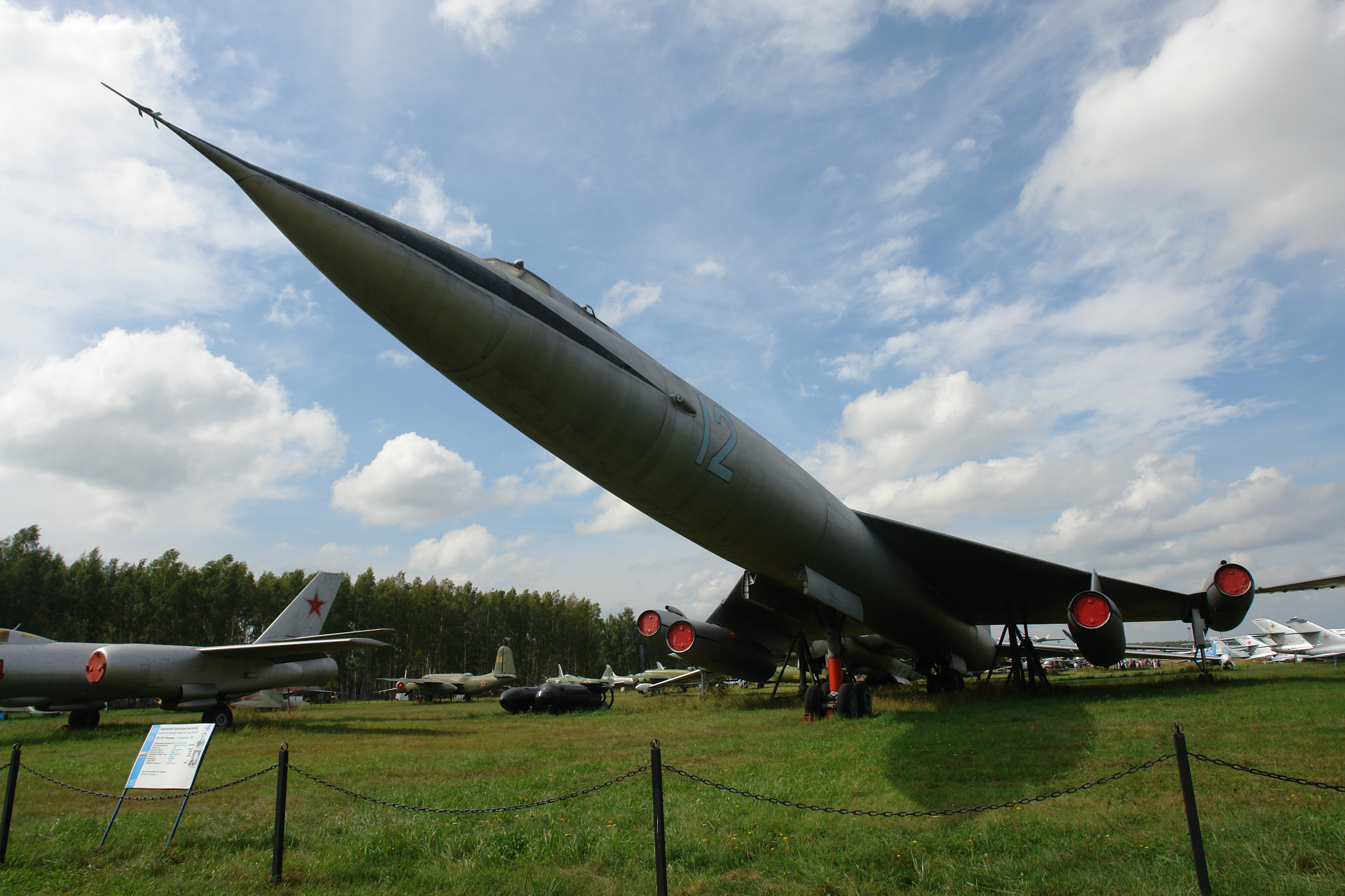 Myasischev M-50 (Bounder) at Monino Central Air Force Museum (Moscow)